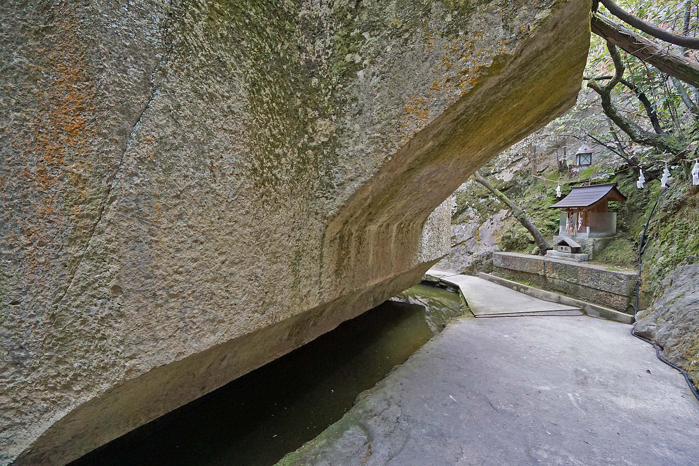 Ishi-no-hoden , 石の宝殿